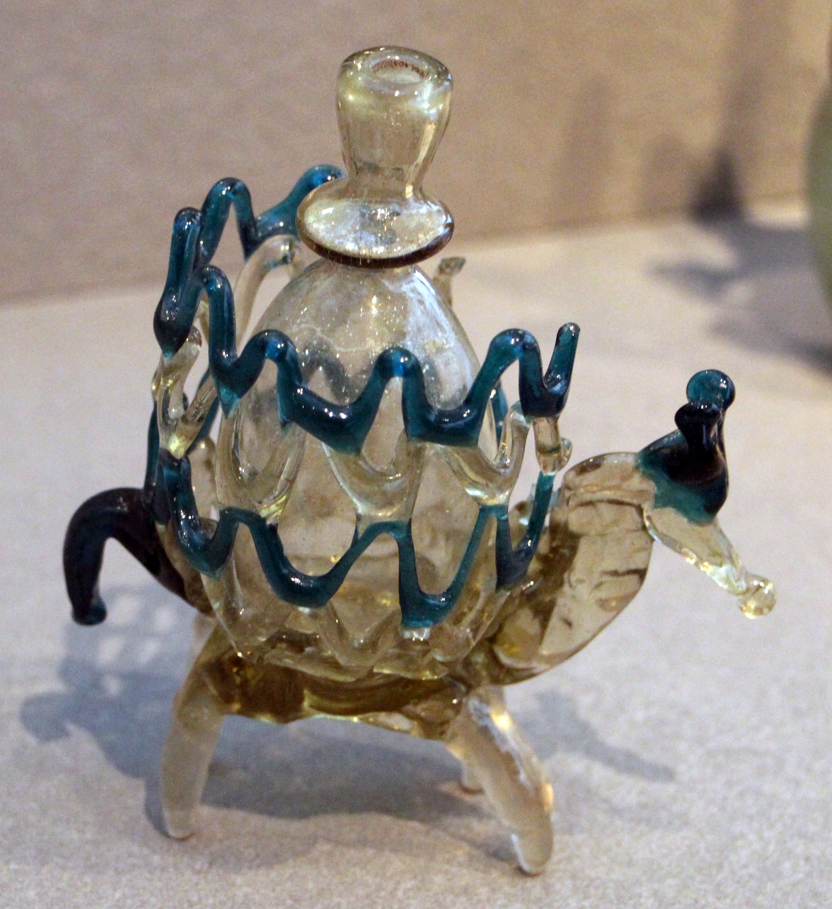 Islamic glassware in the Louvre